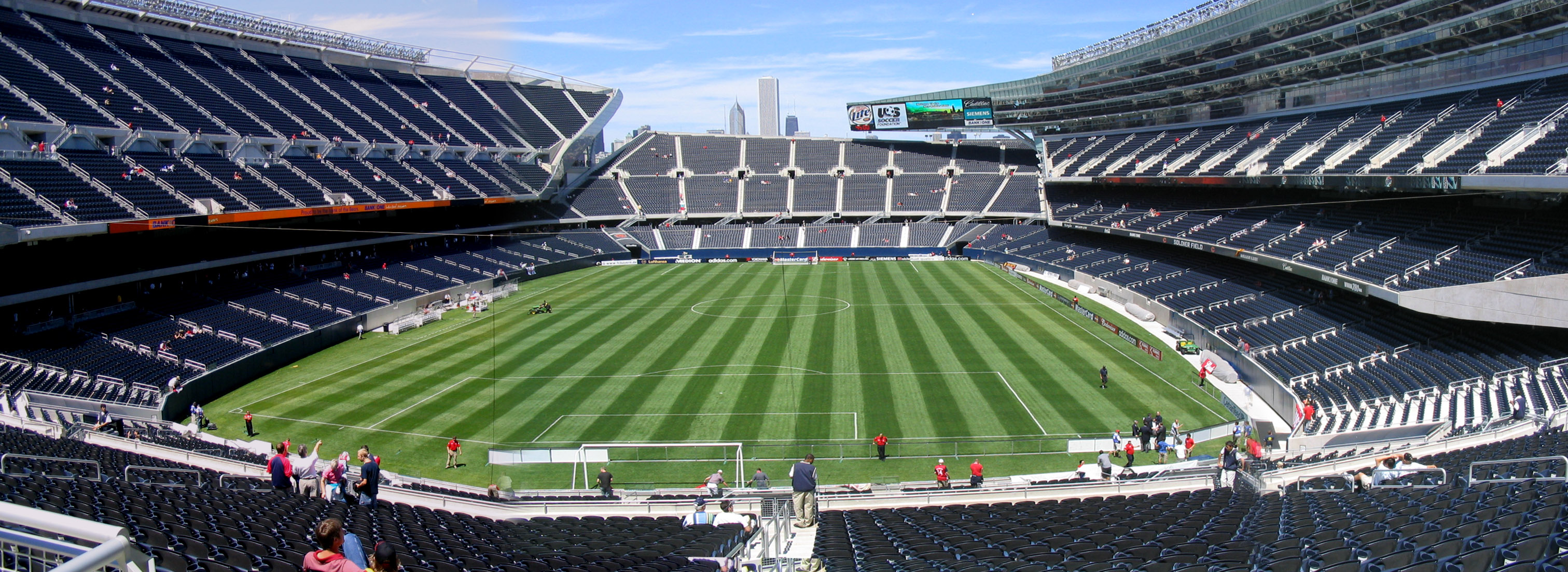 After they fixed up Soldier field.